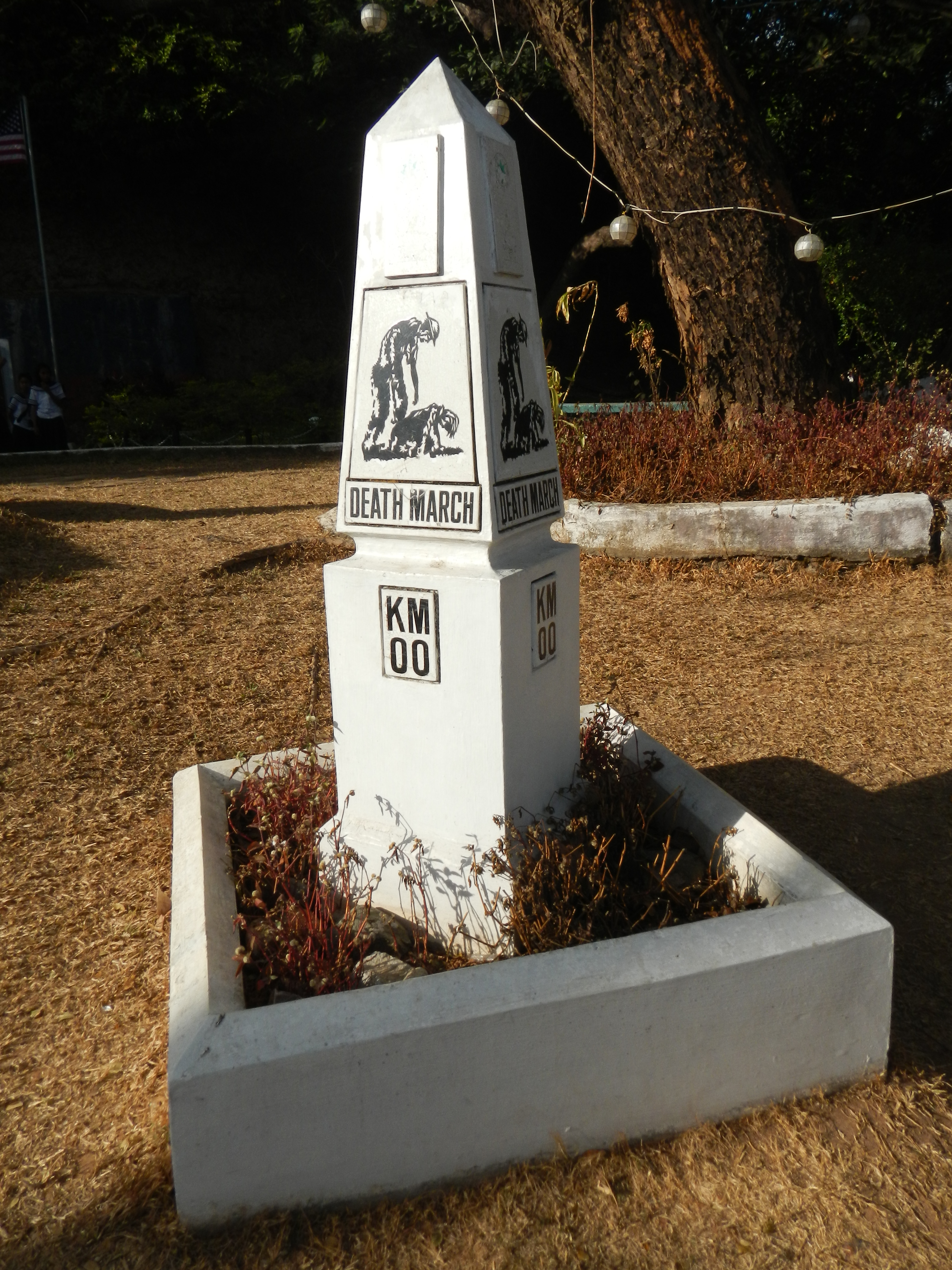 [1]Mariveles, Bataan is a 1st class municipality in the province of Bataan, Philippines. According to the 2007 census, it has a population of 102,844 people in 19,460 households. Population growth rate per annum is 4.71%, twice that of the province itself.[2]